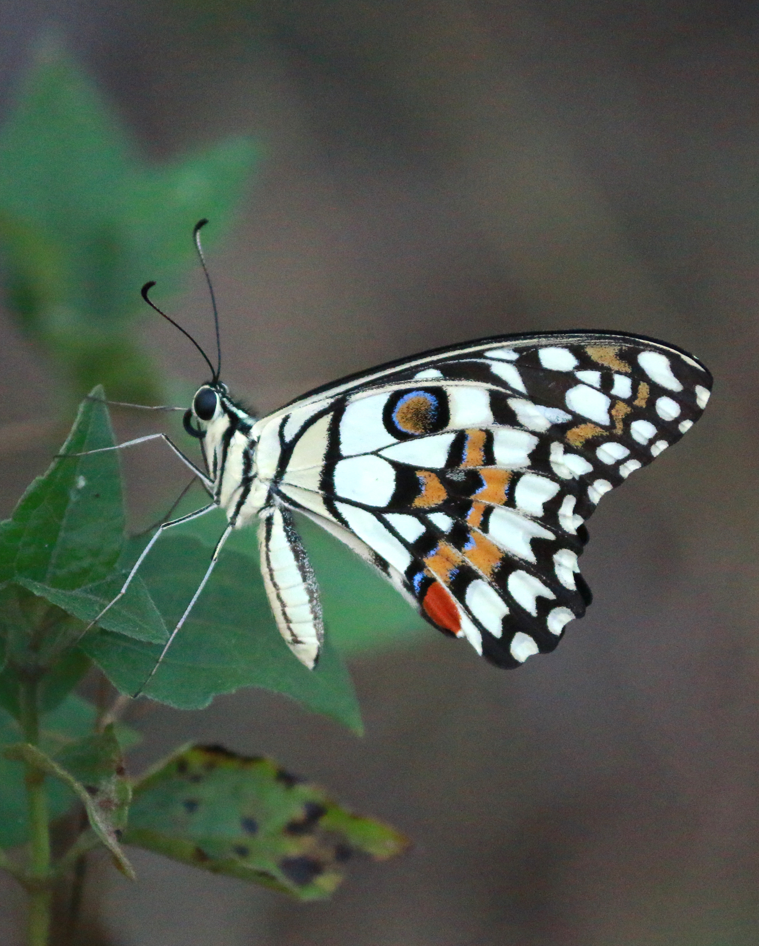 Lime Butterfly